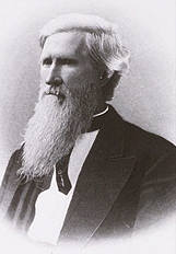 Henry Massey Rector, 6th Governor of Arkansas